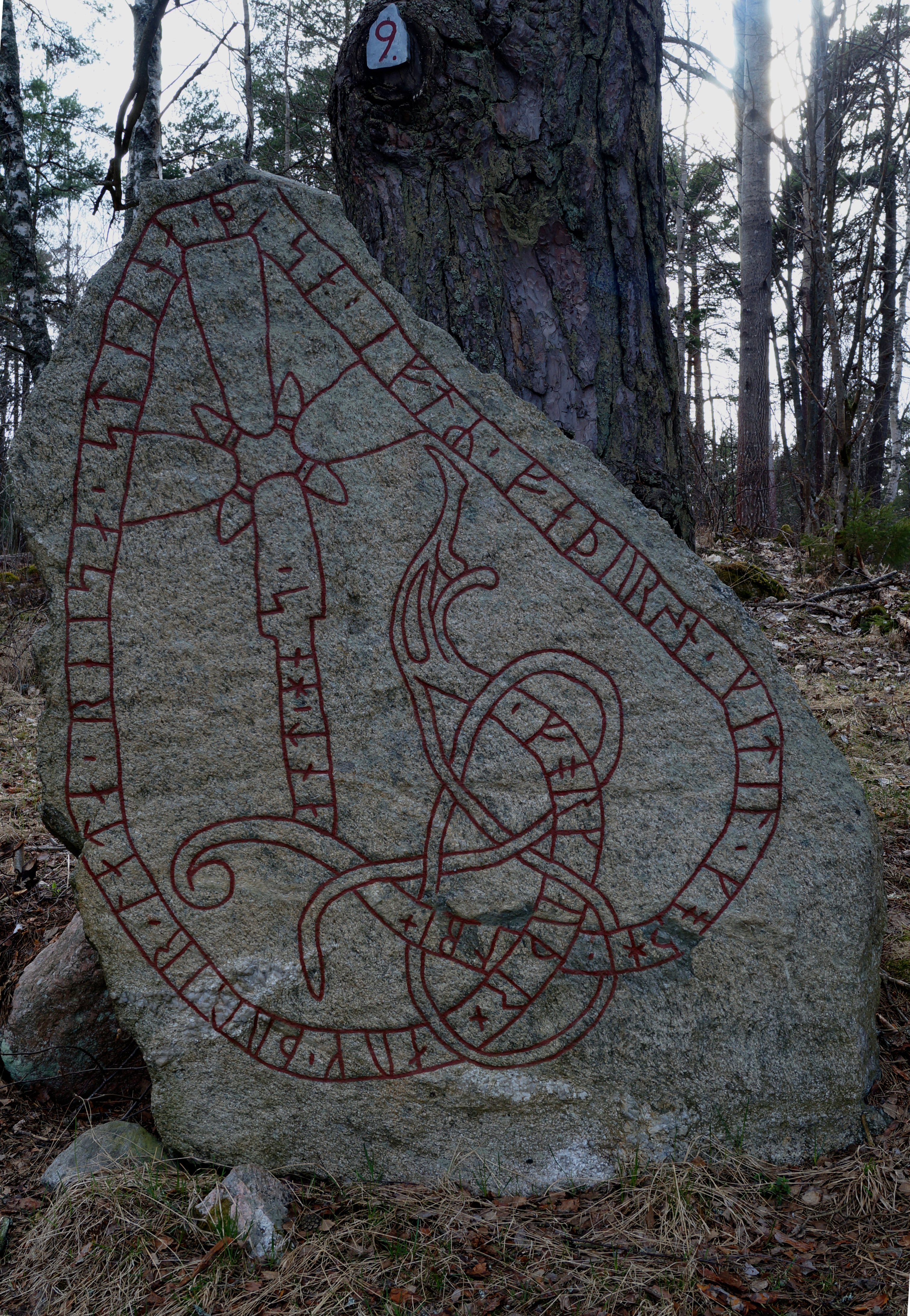 One of the three so called Vilundastenarna (U293) in Upplands Väsby. According to Upplands runinskrifter the text says: "Forkunn och Tore låter resa dessa stenar efter sin fader Kättil. Gud hjälpe hans ande."